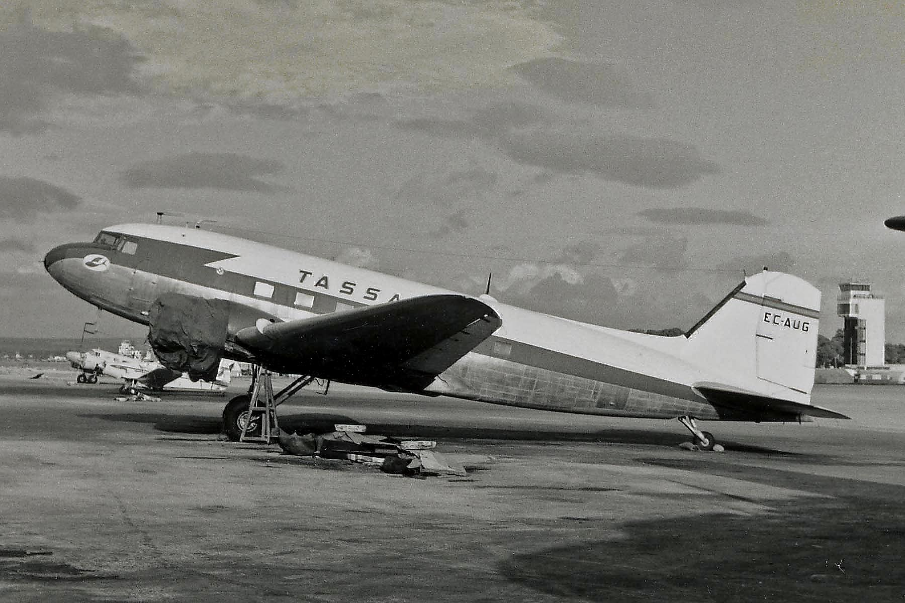 Note that this aircraft has the passenger door on the opposite side.